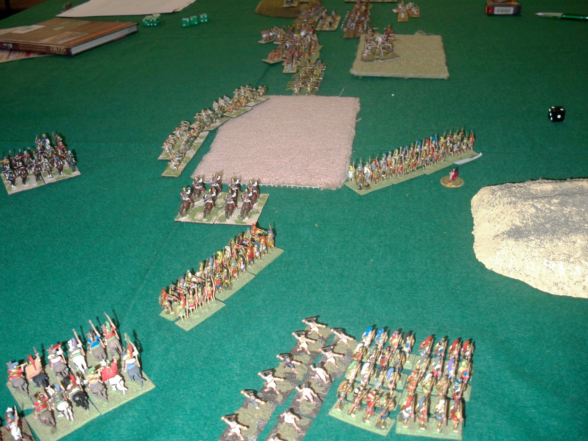 A wargame being played using the Field of Glory ruleset. It is between a Greek Hoplite army and a Persian army - both 800 points. The game was part of the 2009 Society of Ancients competition